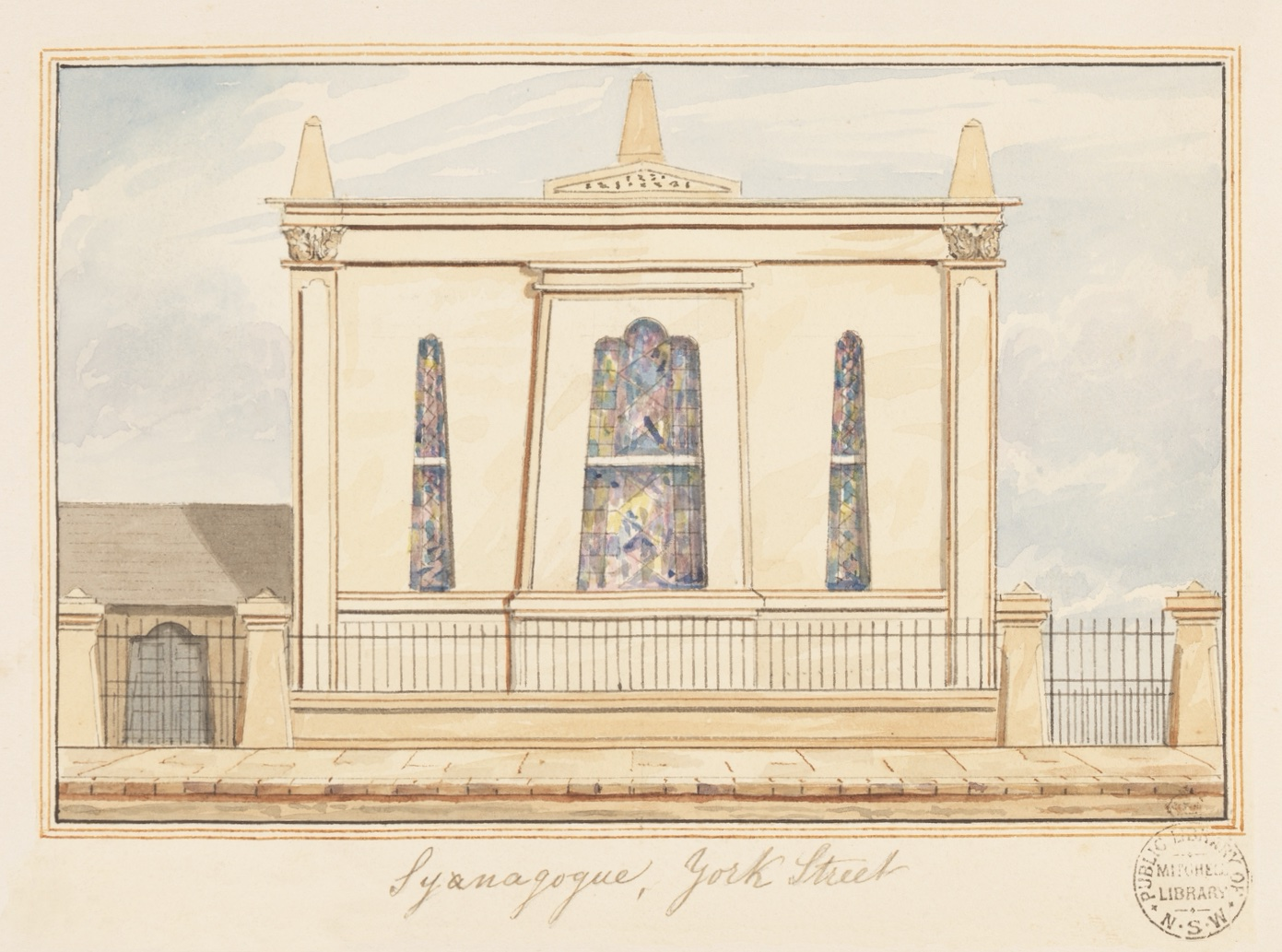 Painting of an early synagogue in Sydney, Australia, by Fred Garling